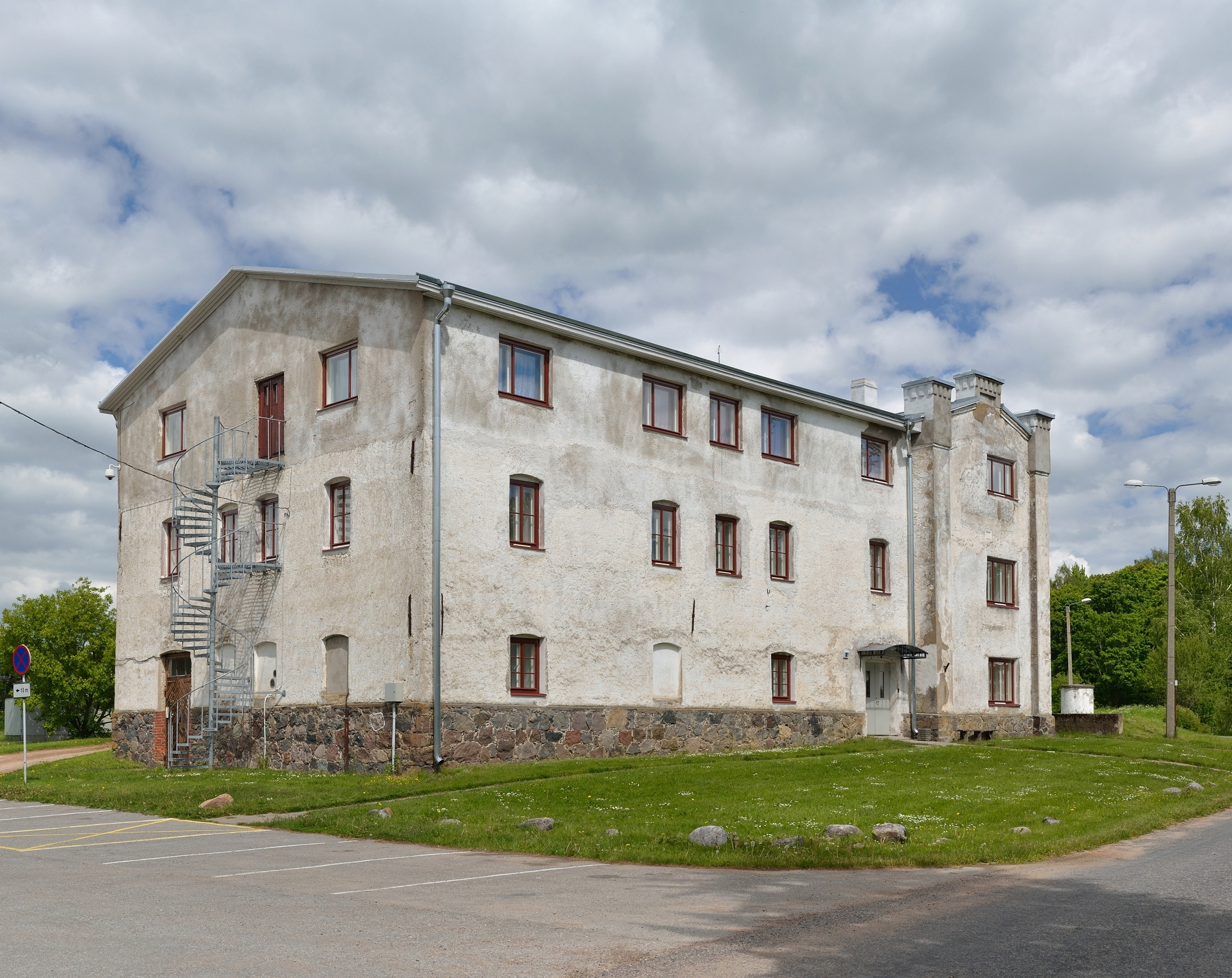 Mõdriku manor distillery